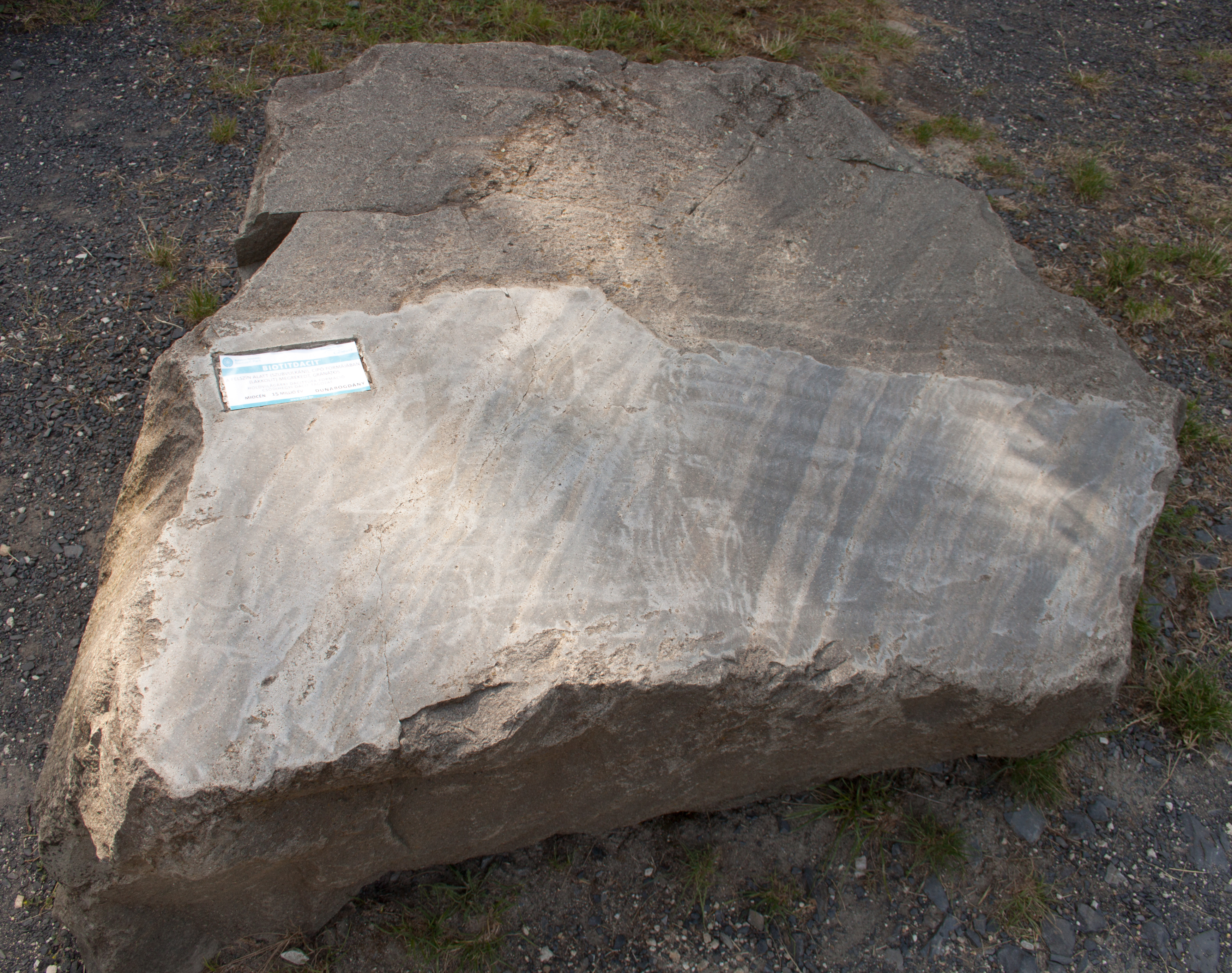 Biotite dacite from Dunabogdány, Hungary. This rock is of Miocene age, formed 15 million years ago. This rock is on display at the Hungarian rocks collection at Hegyestű geopark, Hungary.